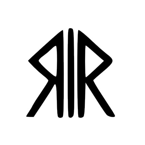 One of the symbols used for Roman Traditionalism, specifically that of the "Roman Traditional Movement" organisation (Movimento Tradizionale Romano)